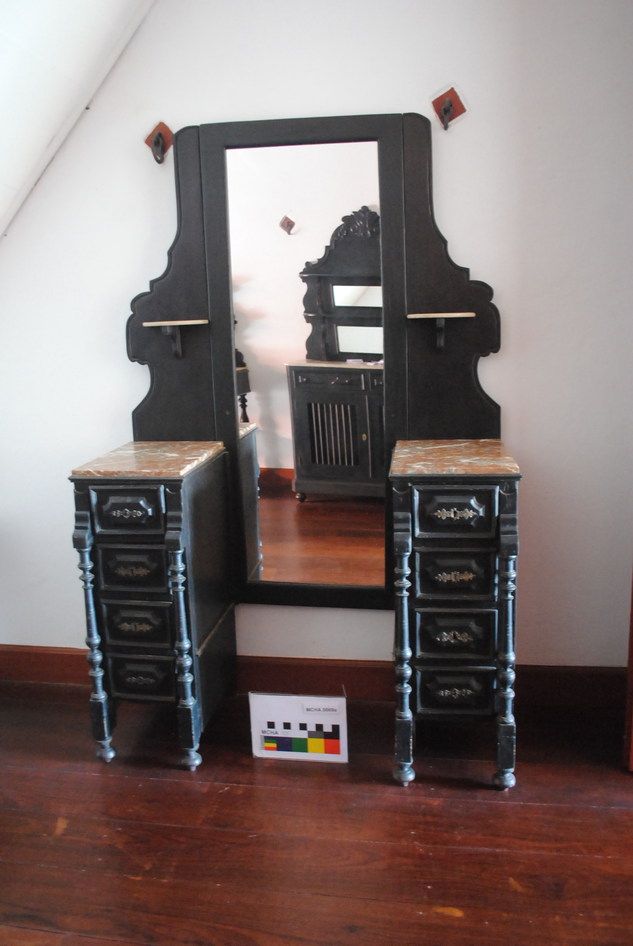 Psichê - móvel tipo penteadeira, séc. XX